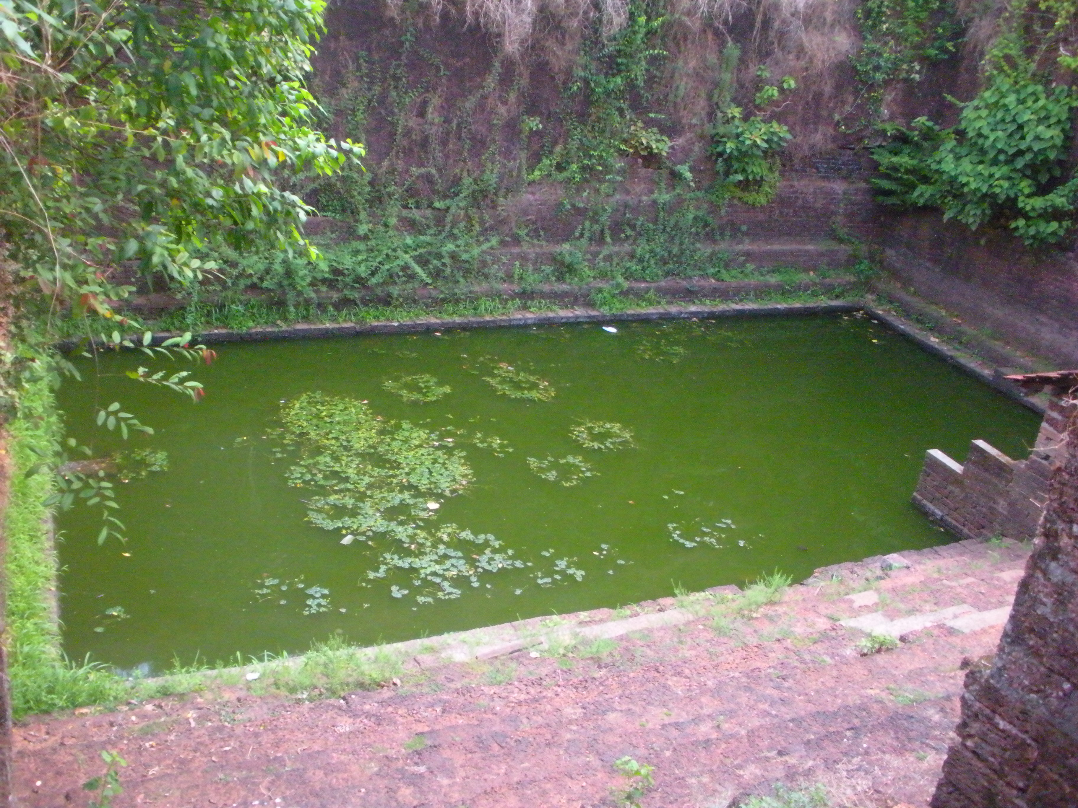 Thalipparamba Rajarajeshwara Temple Pond